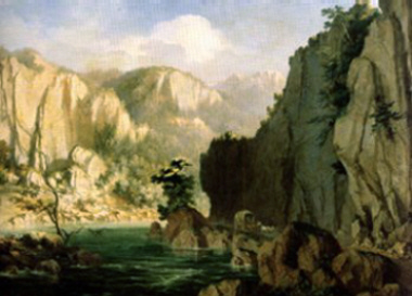 The Olt at Cârlige